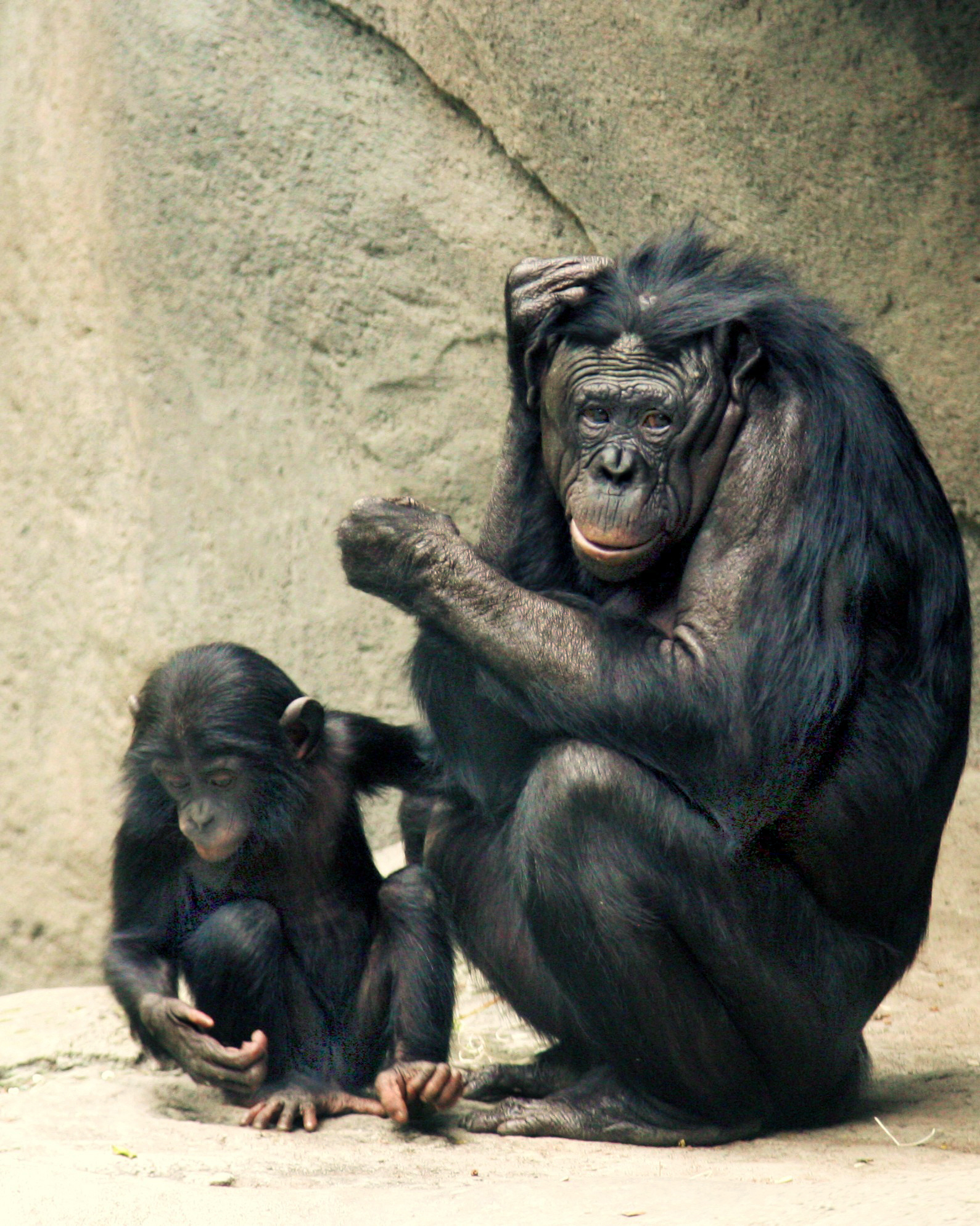 Bonobo mother Lana, age 25, and daughter Kesi, 2, at the San Diego Zoo in 2006.